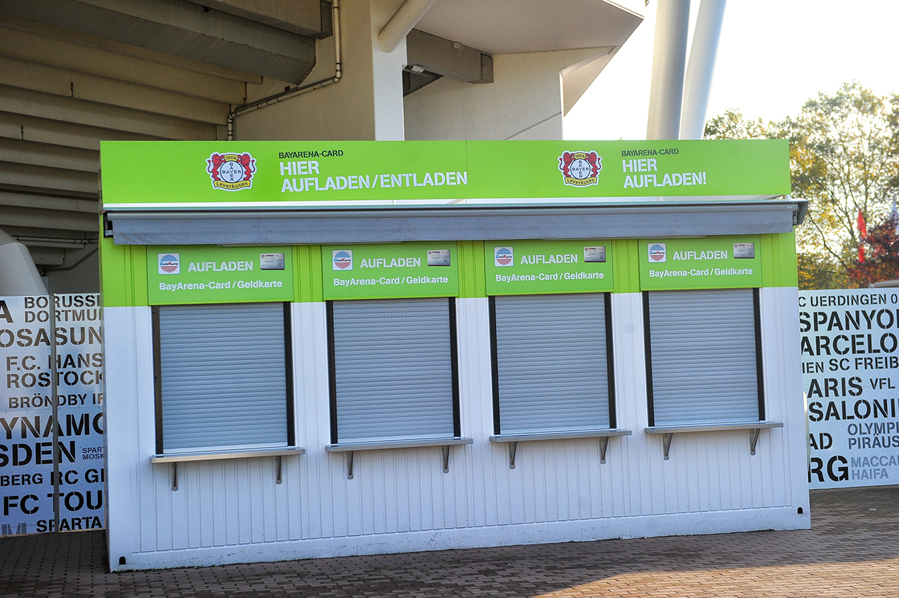 BayArena in Leverkusen, North Rhine-Westphalia, Germany